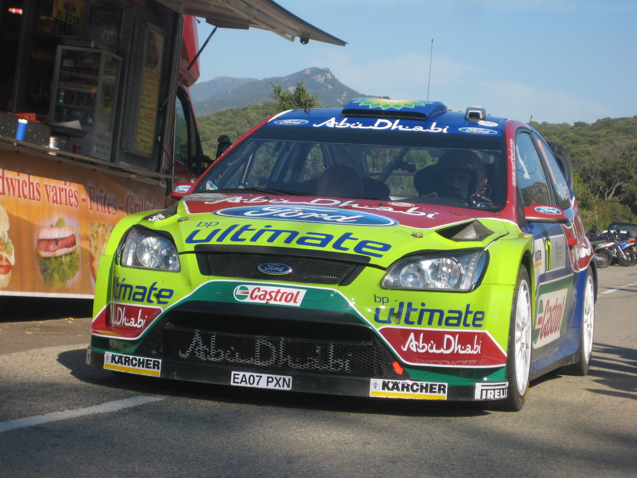 2008 Rallye de France, Day 1-SS5, Khalid al-Qassimi - Ford Focus WRC